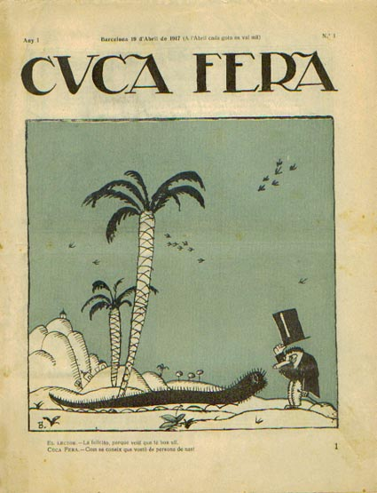 Cuca fera